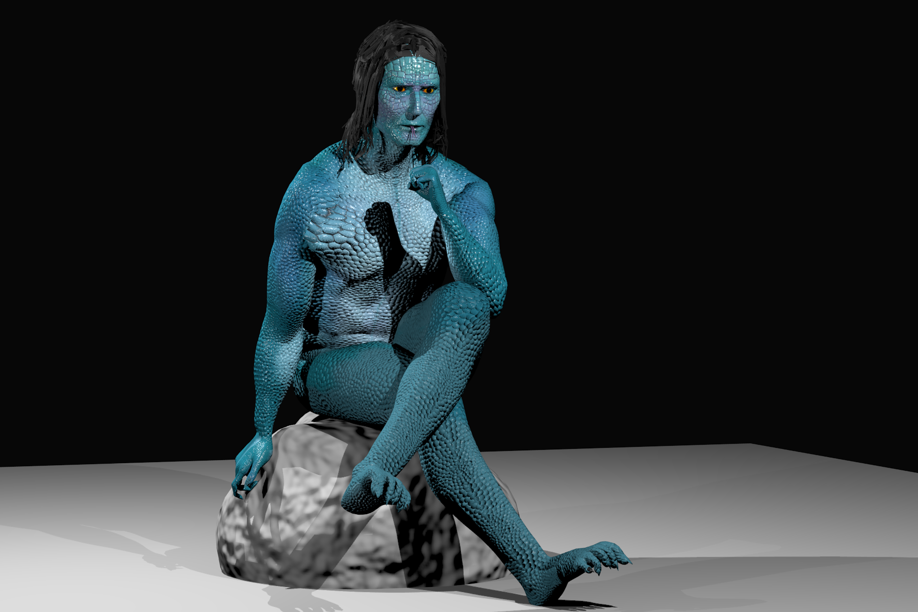 Ancient belarusian pagan god.